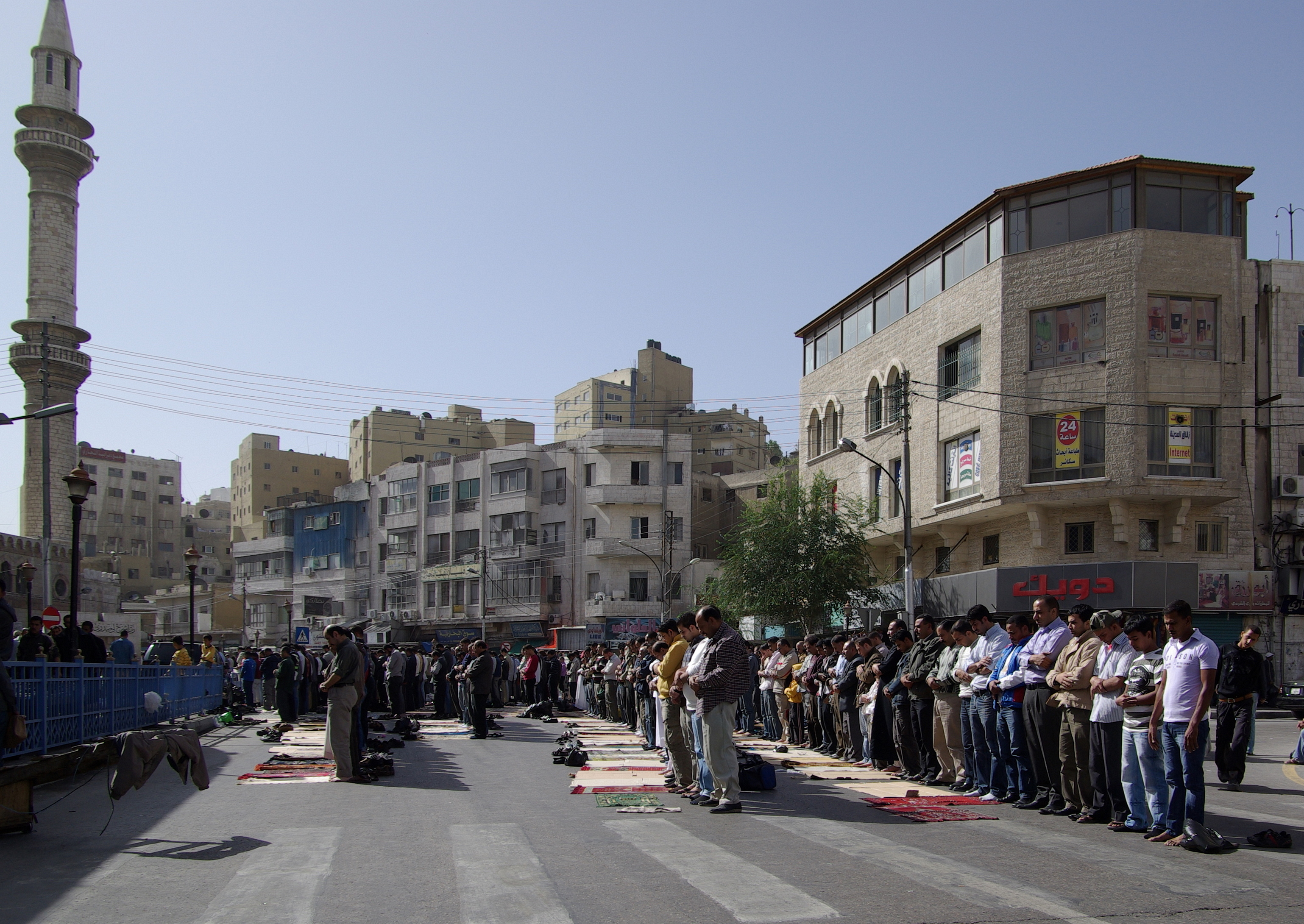 Jordan, Amman, prayers in front of the Hussein-Mosque